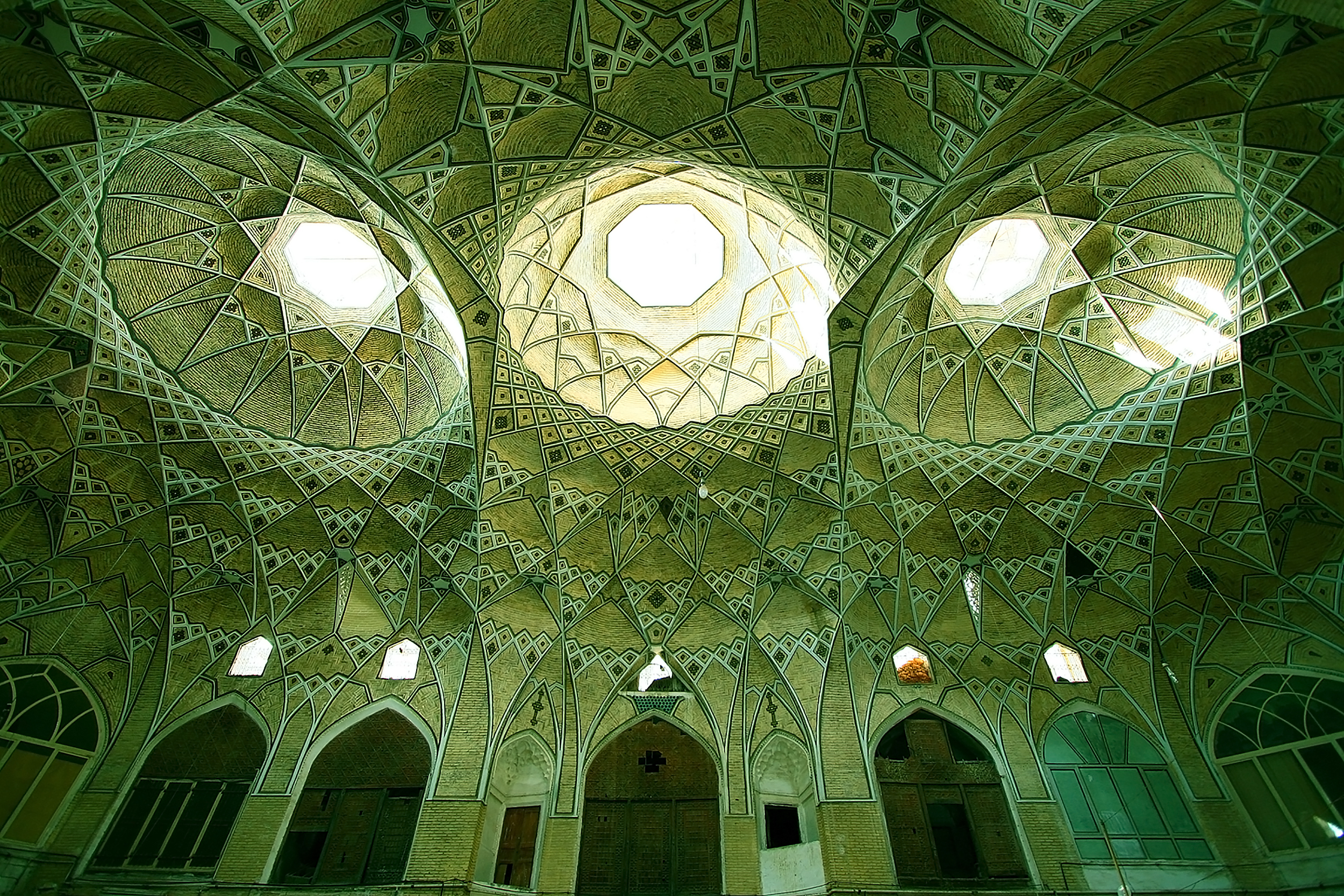 Qom also spelled as Ghom, is the eighth largest city in Iran. It lies 125 kilometres (78 mi) by road southwest of Tehran and is the capital of Qom Province. At the 2011 census its population was 1,074,036 (957,496 at the 2006 census, in 241,827 families), comprising 545,704 men and 528,332 women. It is situated on the banks of the Qom River. Qom is considered holy by Shiʿa Islam, as it is the site of the shrine of Fatema Mæ'sume, sister of Imam `Ali ibn Musa Rida (Persian Imam Reza, 789–816 AD). The city is the largest center for Shiʿa scholarship in the world, and is a significant destination of pilgrimage. Qom is famous for a brittle toffee called “Sohan” (Persian:سوهان), considered a souvenir of the city and sold by 2,000 to 2,500 “Sohan” shops.